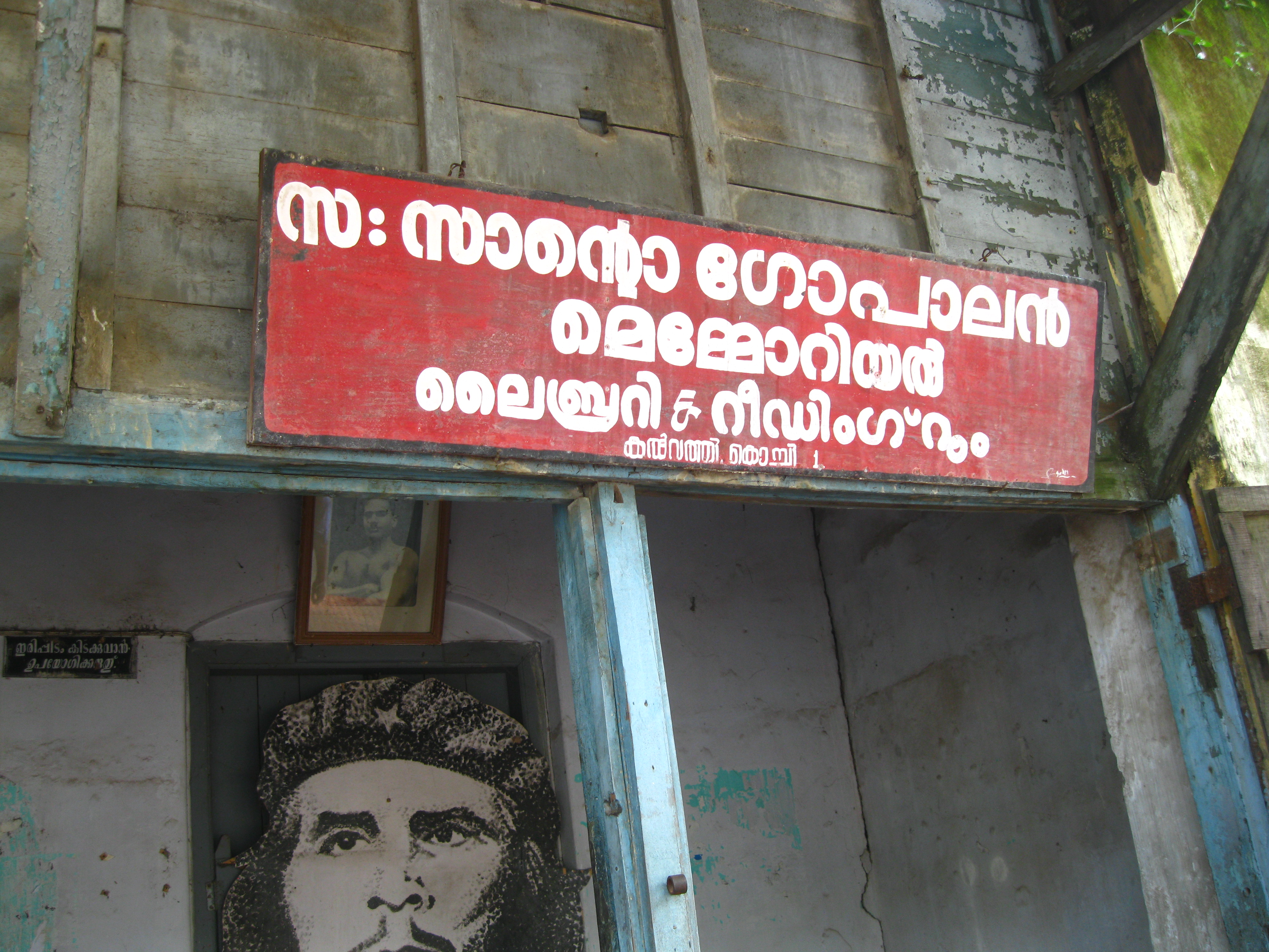 santo gopalan ,famous wrestling champion of kerala,and his memorial library ,fort Cochin